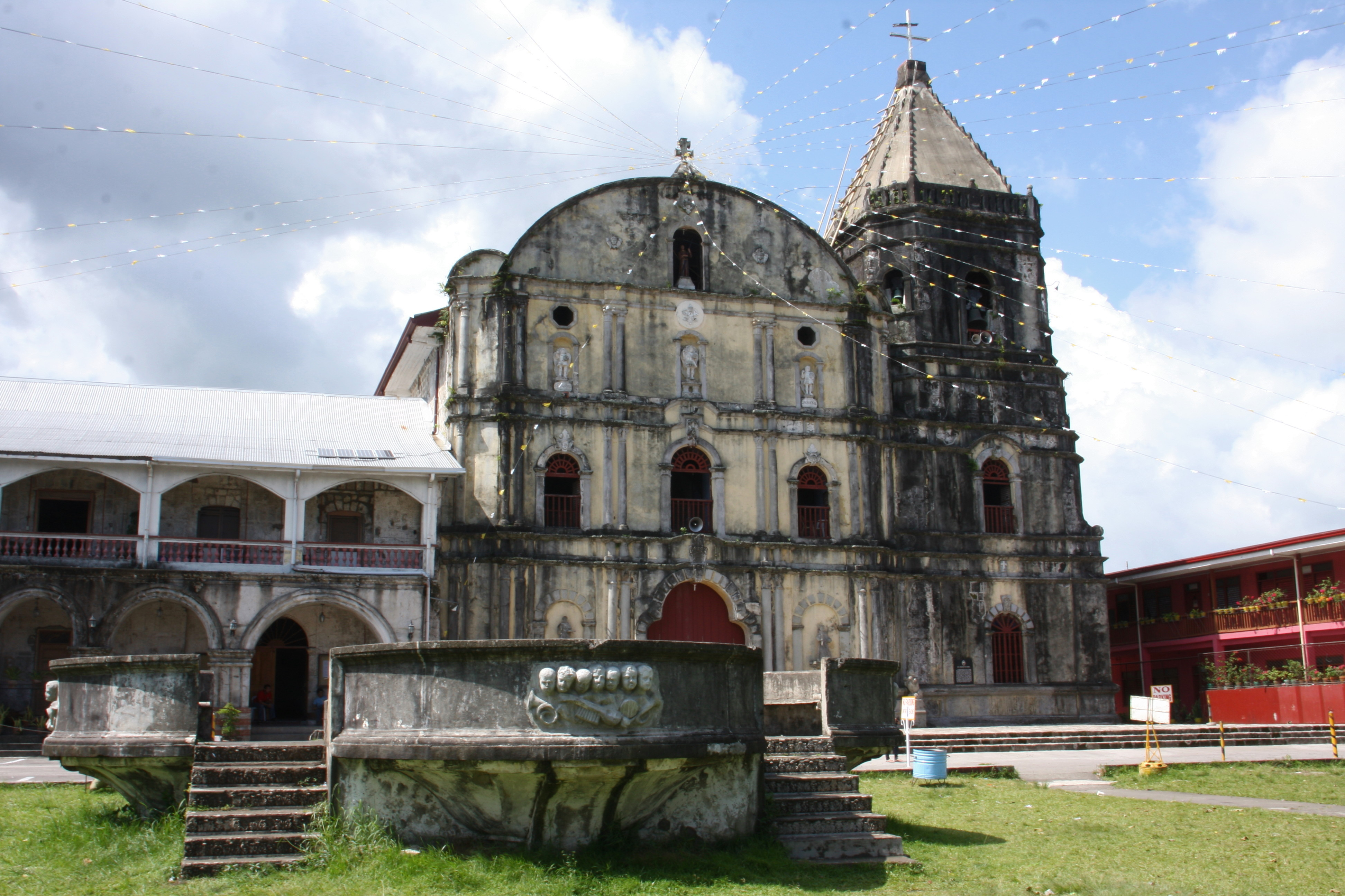 Minor Basilica of Saint Michael the Archangel, popularly know as Tayabas Basilica. One of the Biggest Catholic Church in the Philippines. Founded by the Franciscan Friars. Biggest stone Bell-clock-stone tower in Asia.